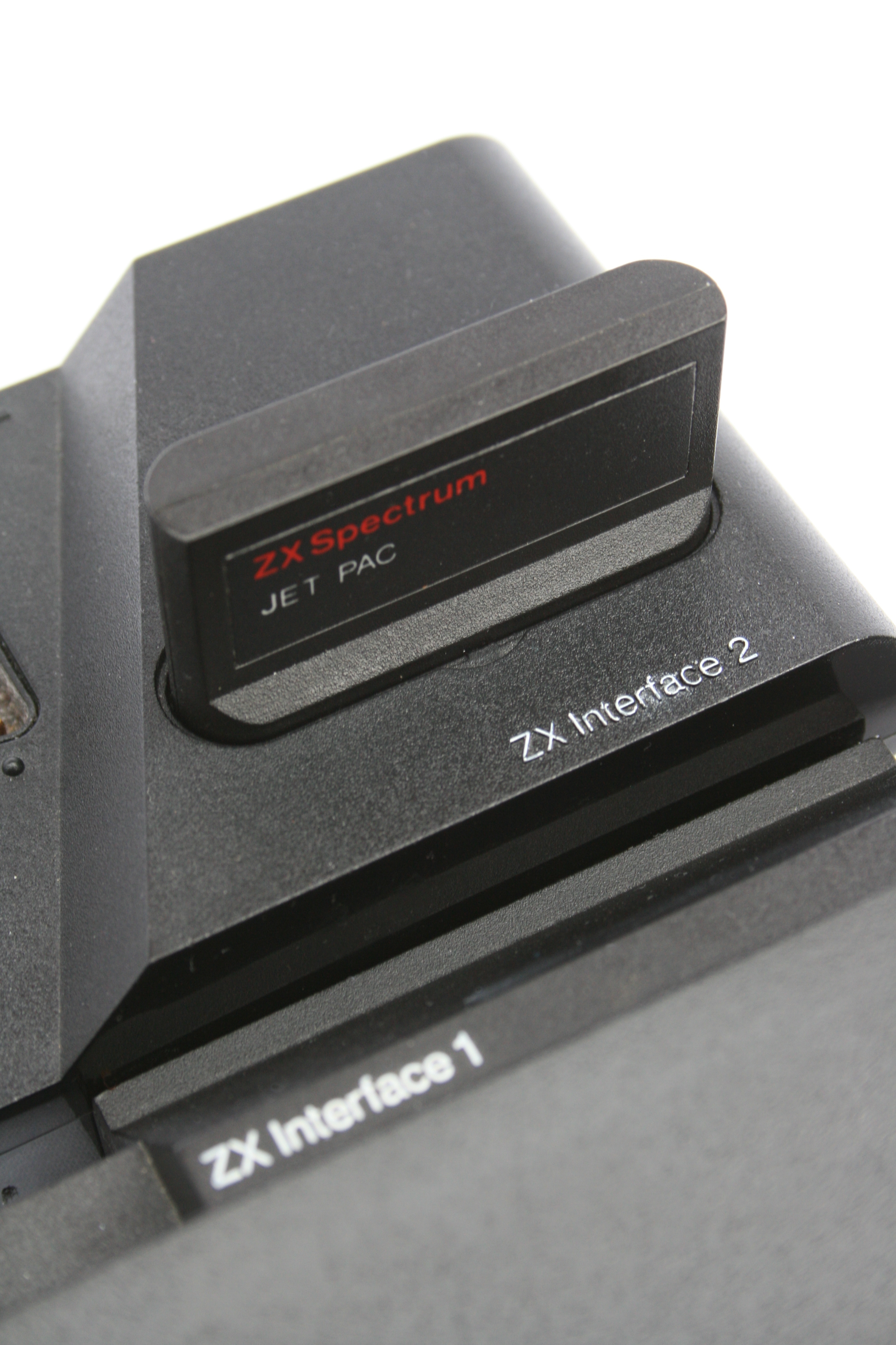 ZX Interface 2 (with "Jet Pac" video game cartidge) connected to ZX Interface 1.